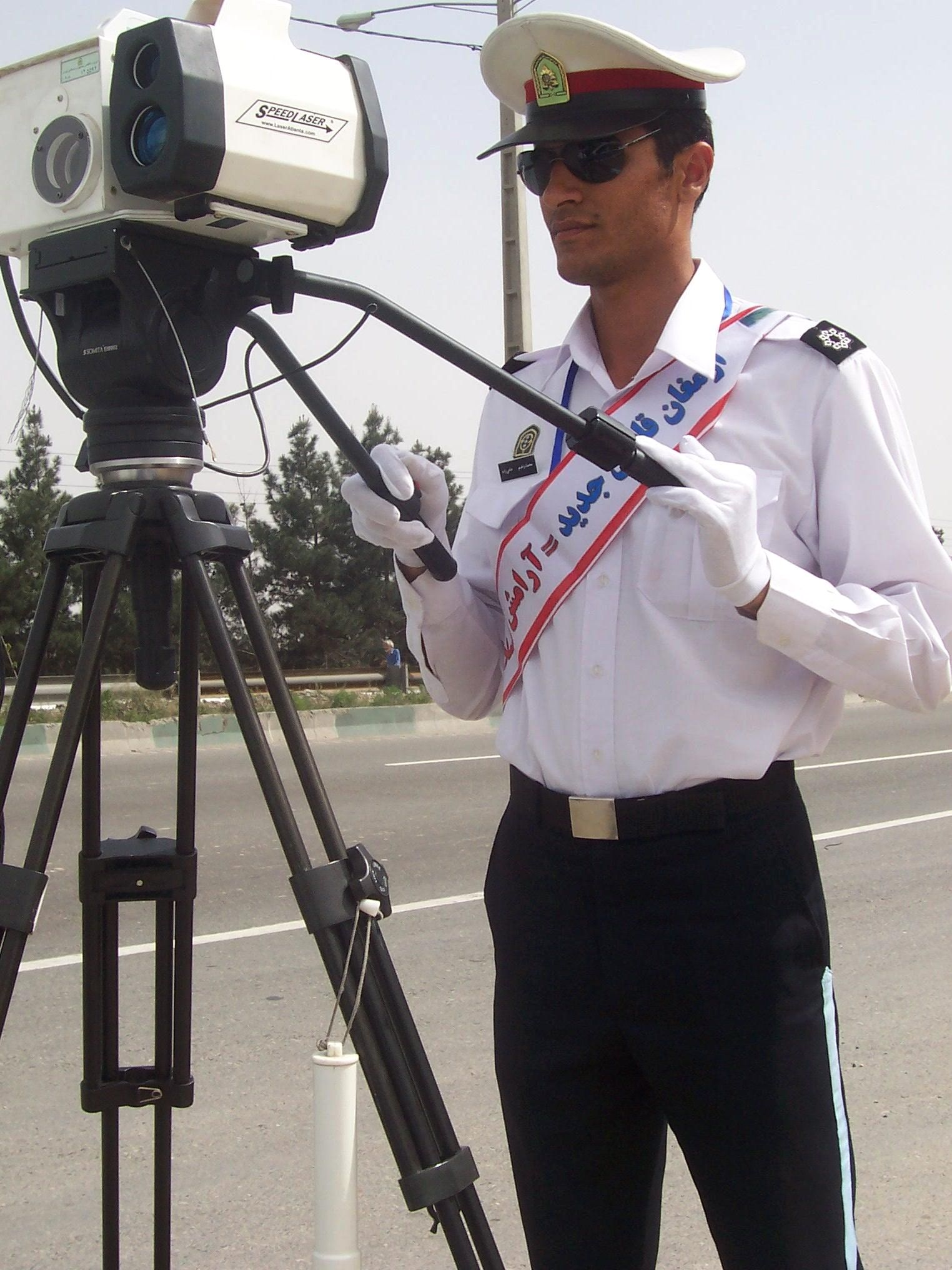 Iranian_Officer Police_with_speed_gun - Tehran.